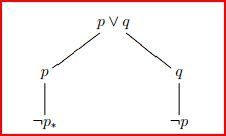 Captura algebra para la edificación